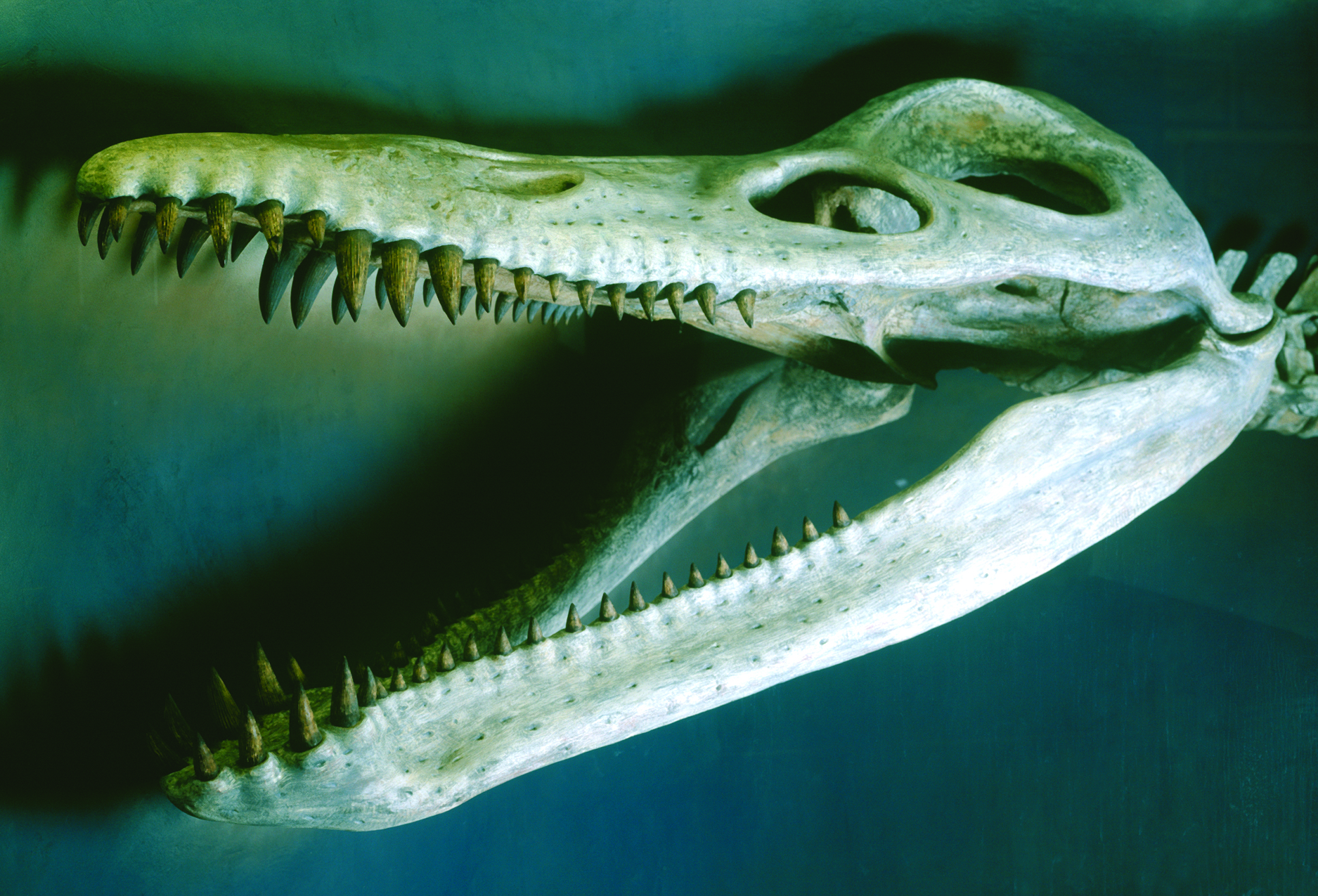 bos_harvard_museum_of_natural_history